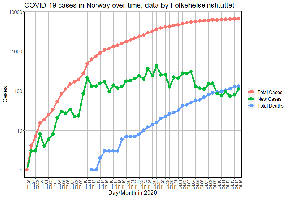 Rplot19-1